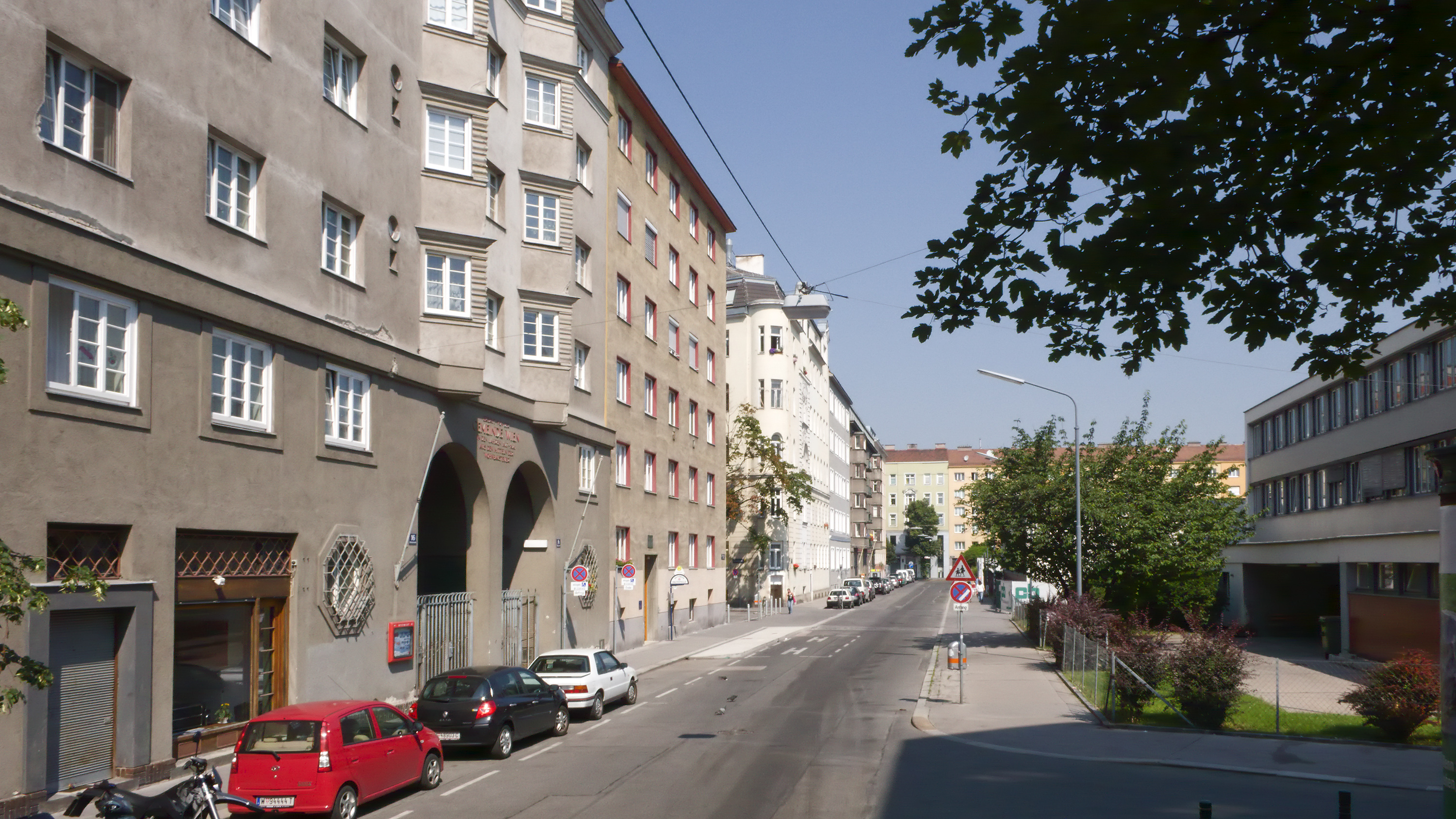 Residential buildings Wohlmutstraße 14-16 in Vienna Leopoldstadt